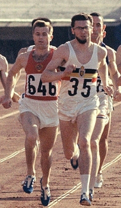 Athletes compete in the Men's 800m Semi-final at the National Stadium during the Tokyo Olympic on October 15, 1964 in Tokyo, Japan. Left-right: Valery Bulyshev, Jacques Pennewaert